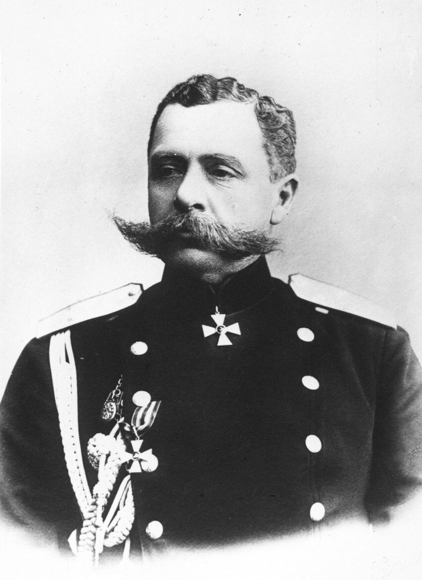 Paul Georg von Rennenkampff (1854-1918), Baltic German General of the cavalry and adjutant general in the Imperial Russian Army